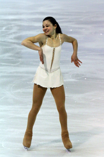 Léna Marrocco at the 2010 World Junior Figure Skating Championships